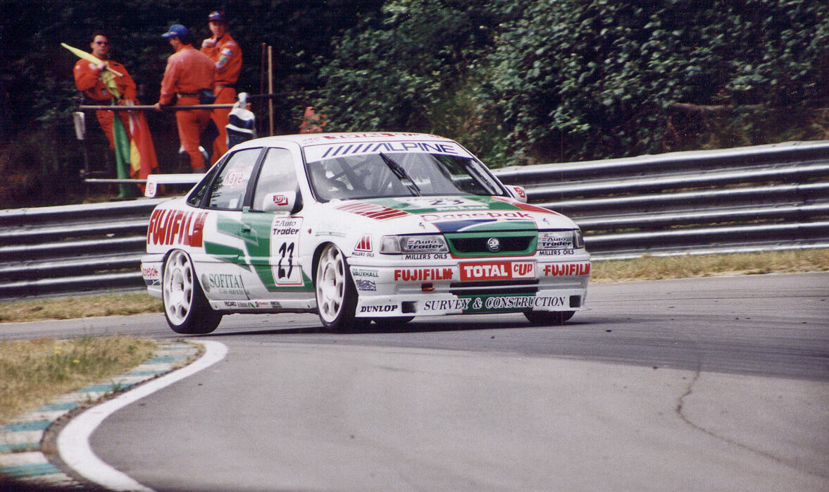 Richard Kaye driving for Vauxhall in the 1996 British Touring Car Championship.